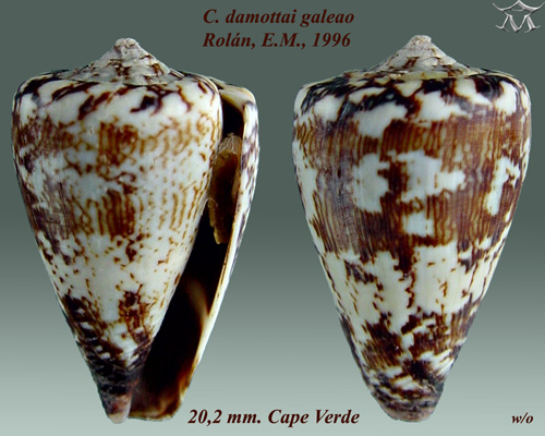 Conus damottai galeao 1